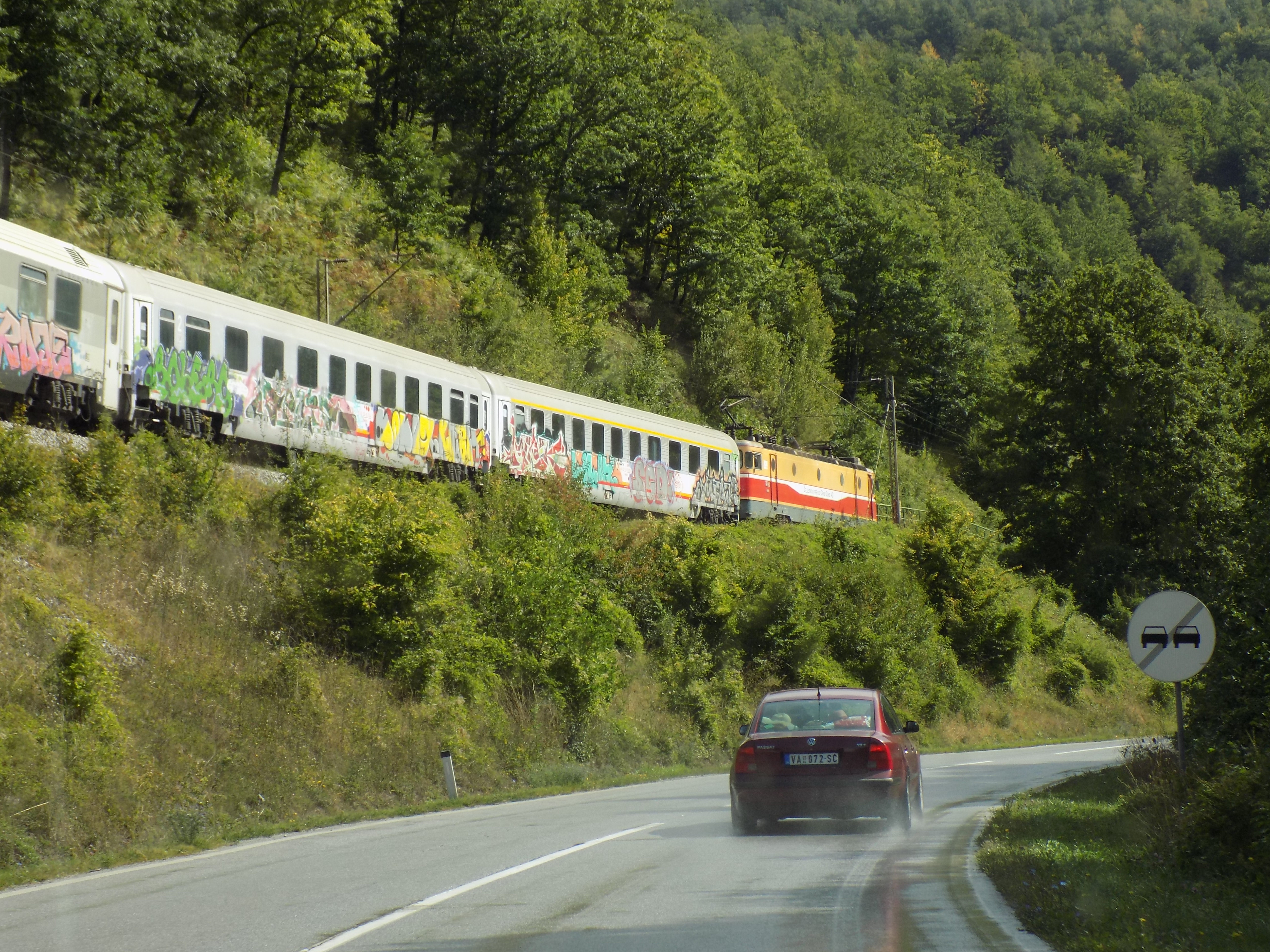 Graffiti on the wagons of the train Belgrade-Bar